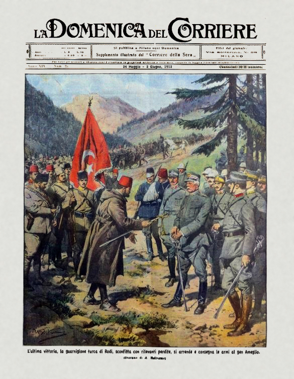 Surrender of the Turkish garrison in Rhodes near Psithos to the Italian general Giovanni Ameglio on 16 May 1912